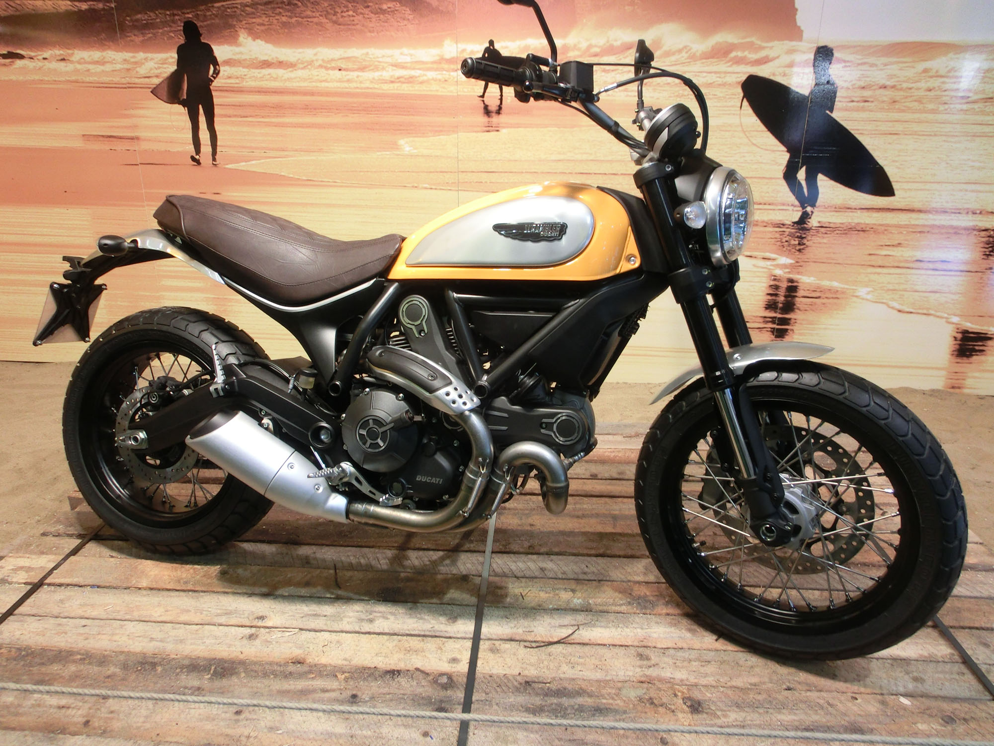 The new Ducati Scrambler. Picture from Ducati stand at Intermot Cologne